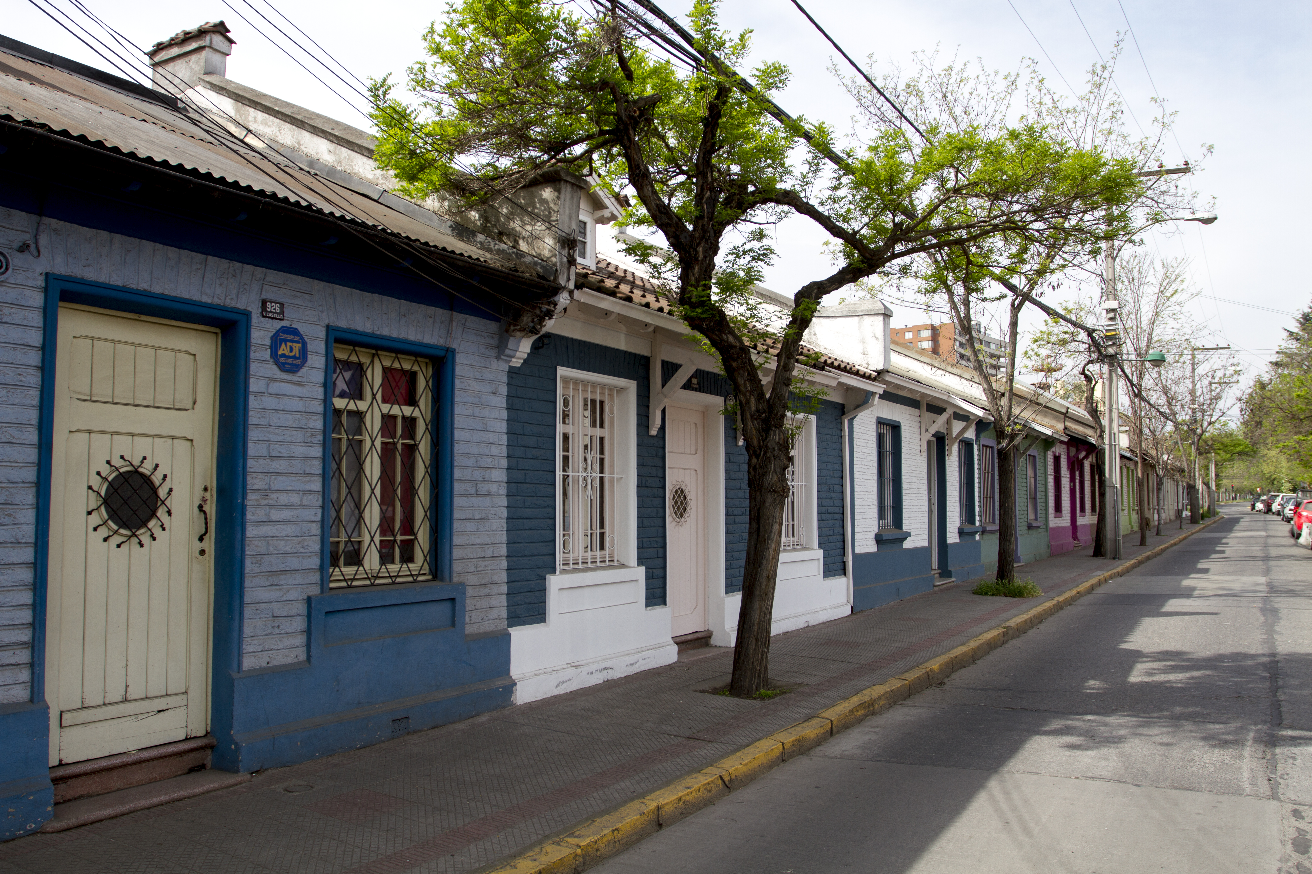 This is a photo of a national monument in Chile: 897